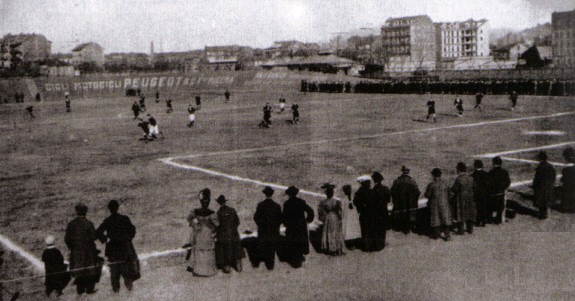 Stadio Motovelodromo Umberto I